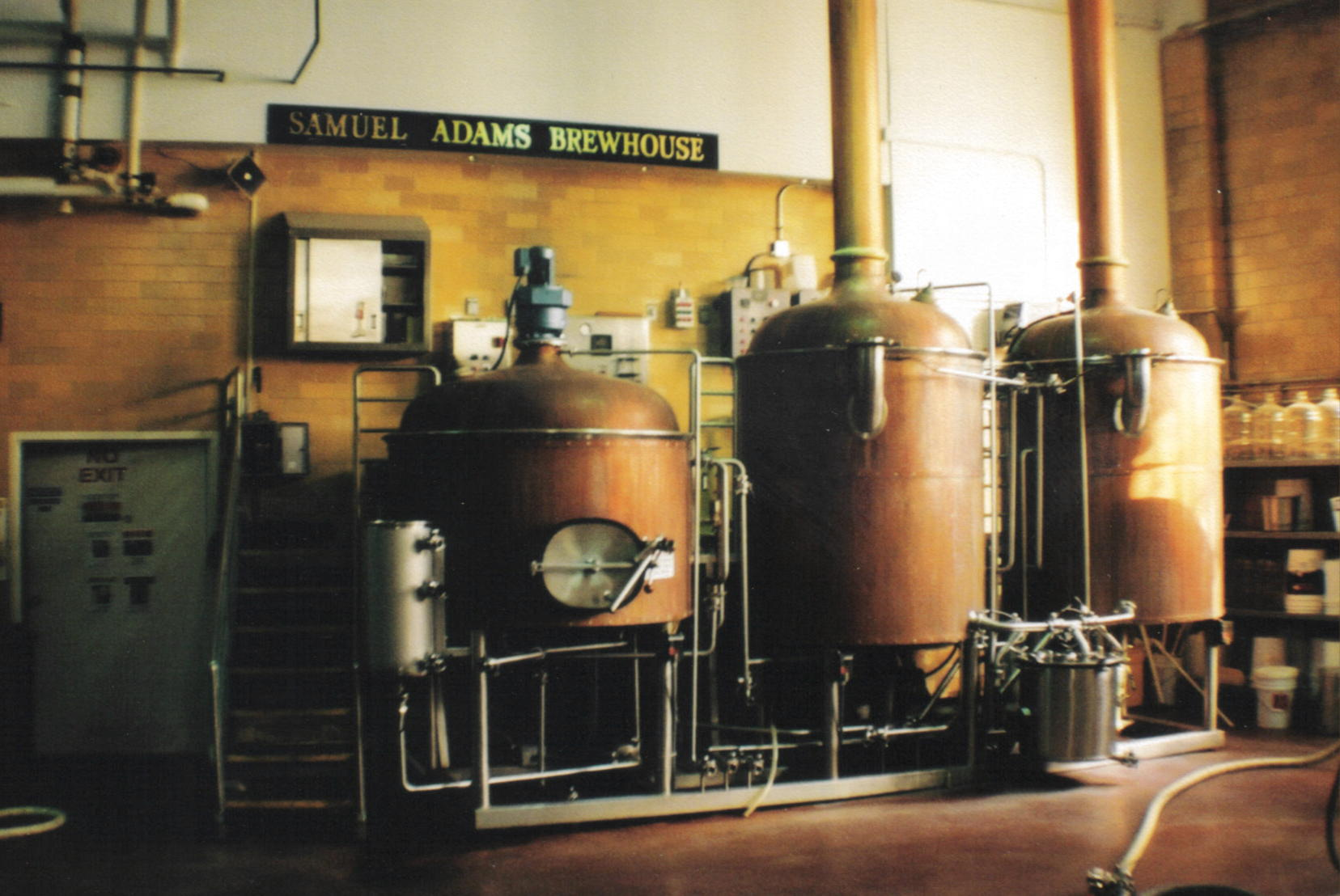 Boilers at the Samuel Adams brewery in Boston, Massachusetts.